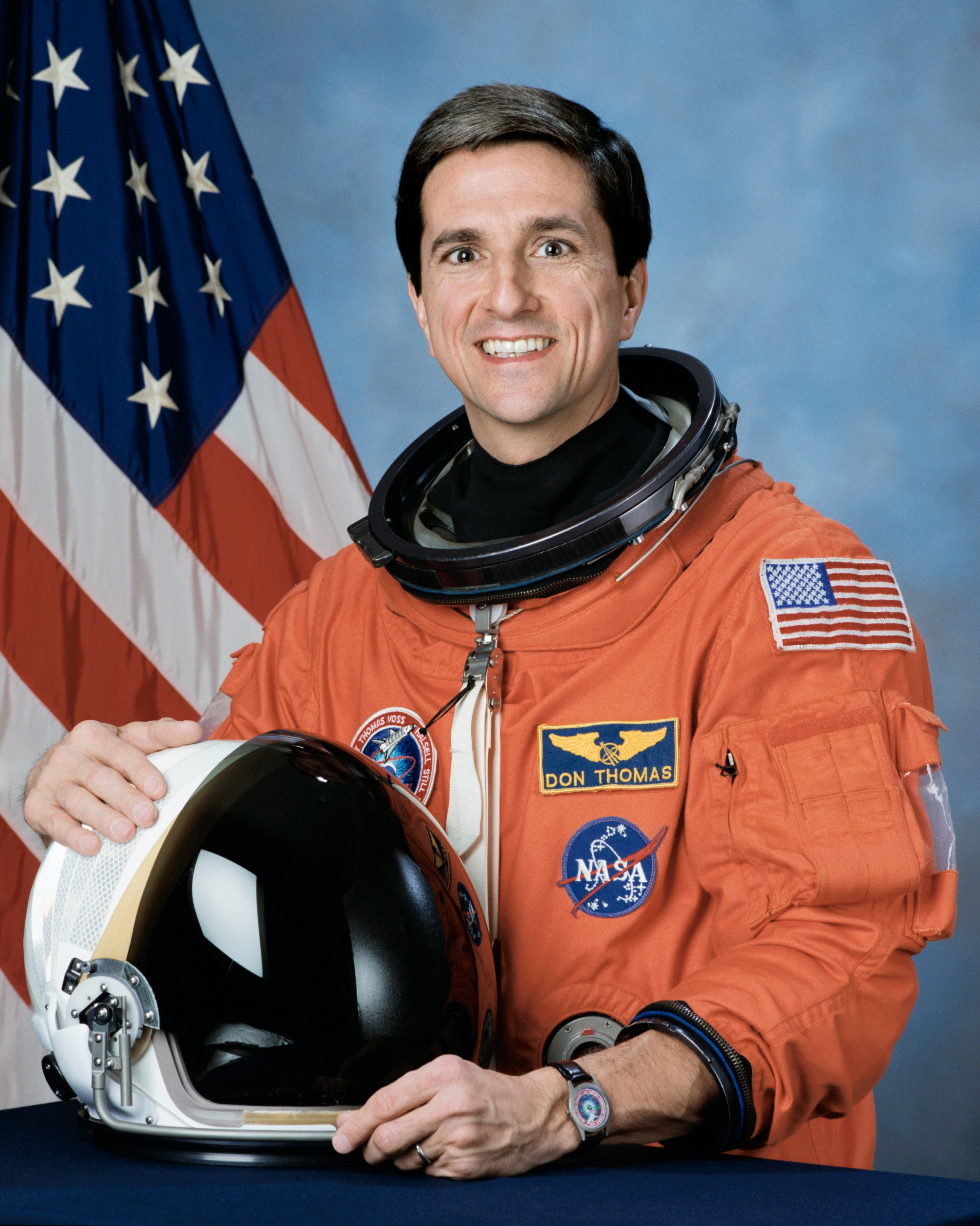 portrait astronaut Donald Thomas